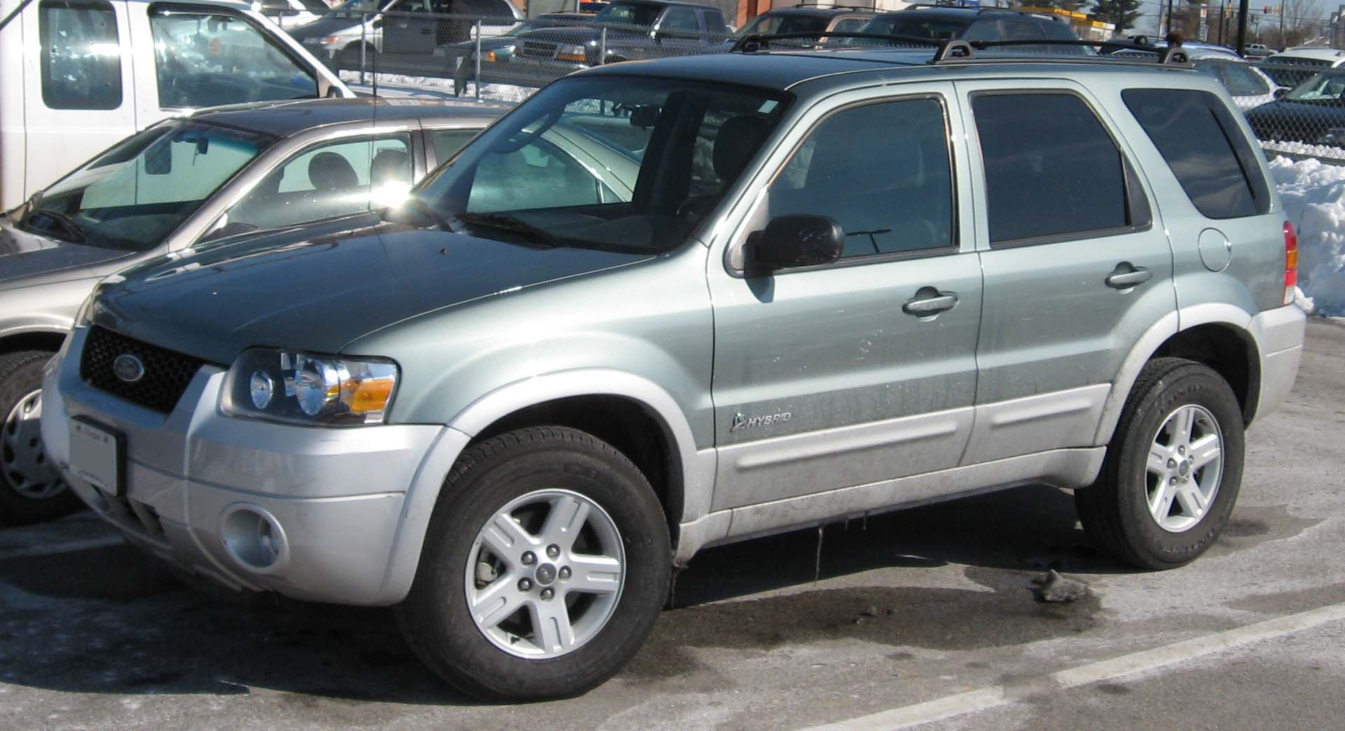 2005-2007 Ford Escape Hybrid photographed in USA.